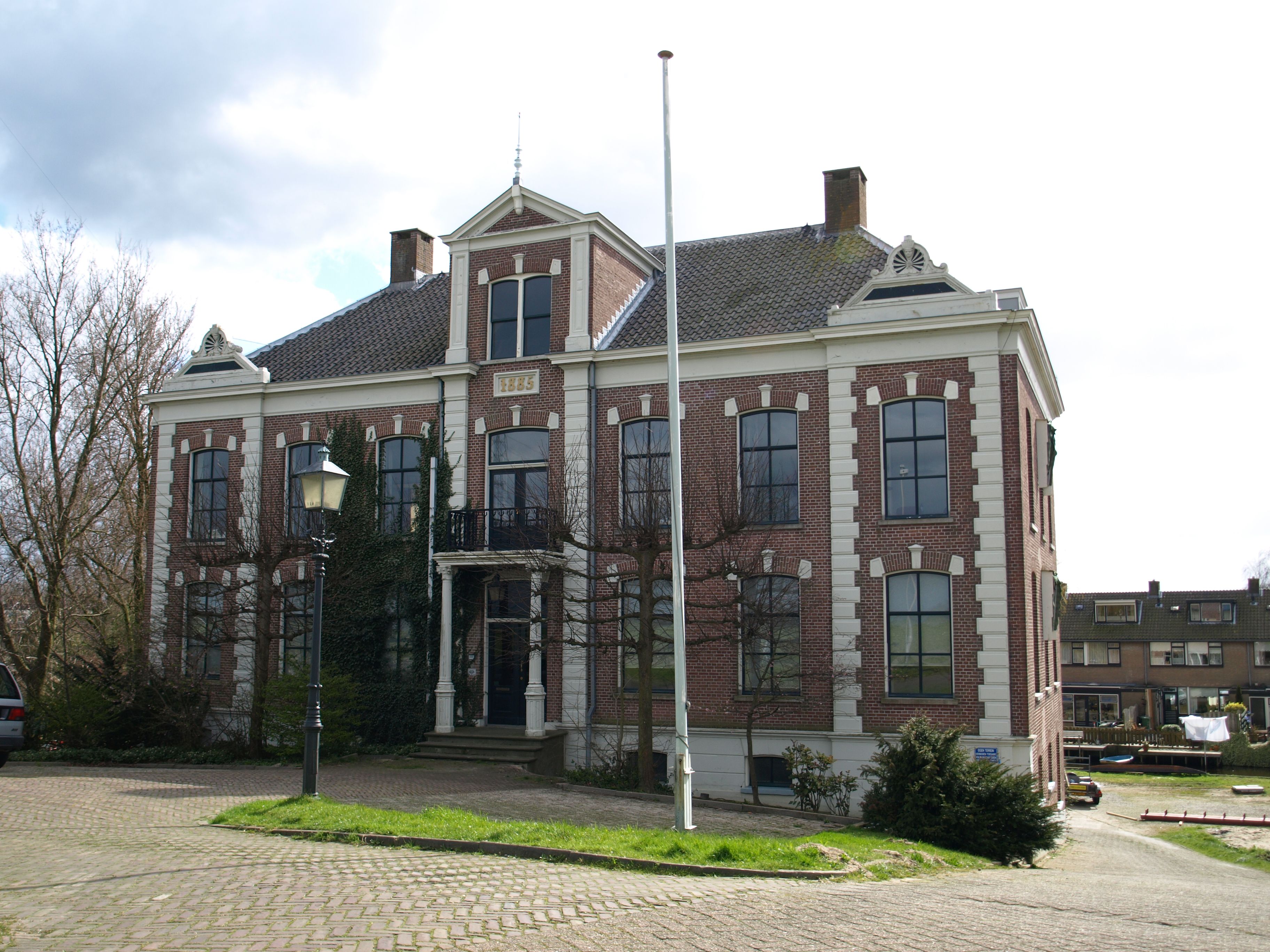 Designed by Aart den Boer, the retirement home of L. en N. Smit's foundation that was built in 1885 in Nieuw-Lekkerland and also used from 1958 to 1996 as city hall.